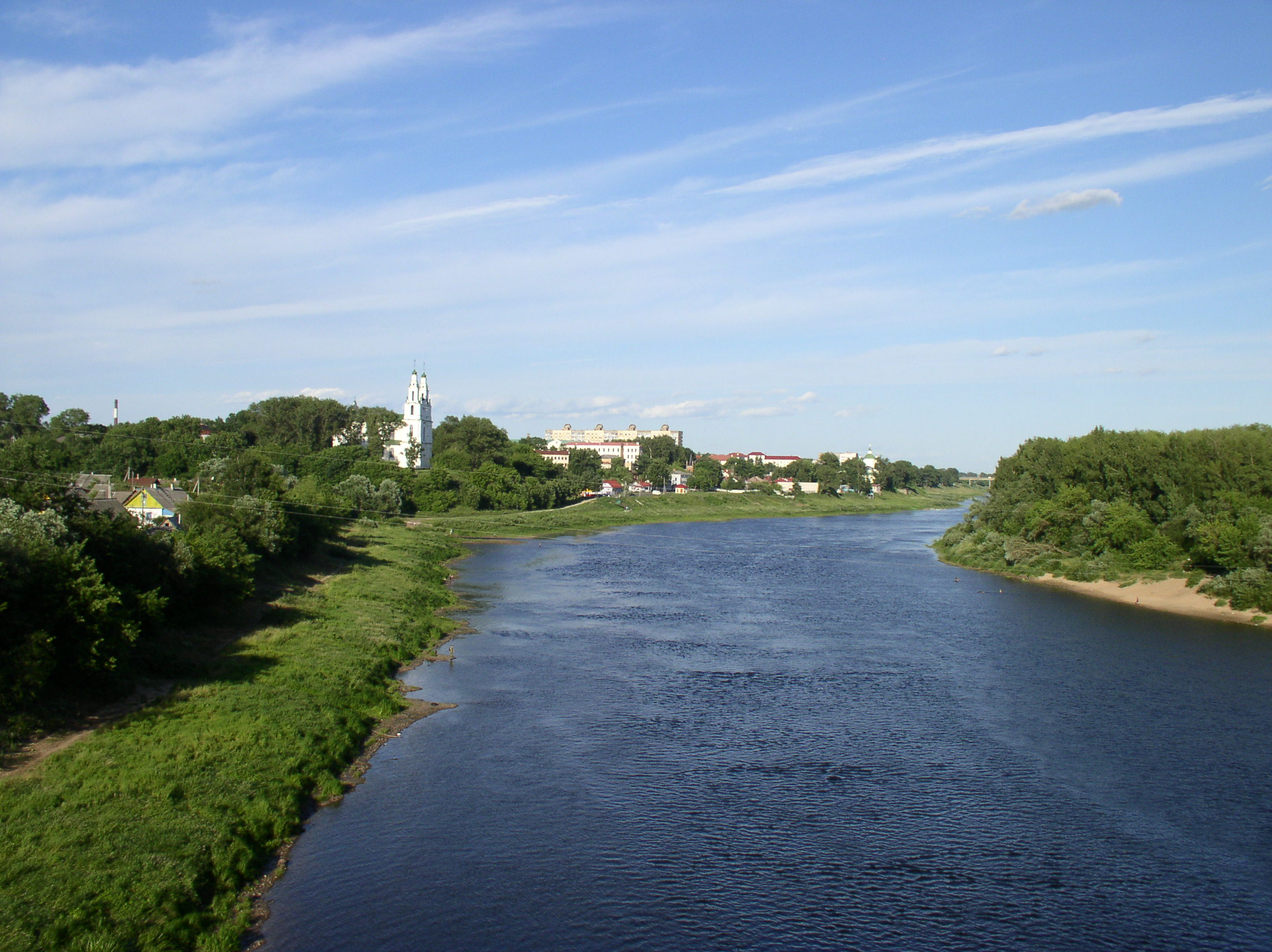 Dzvina river in Polatsk, Belarus.